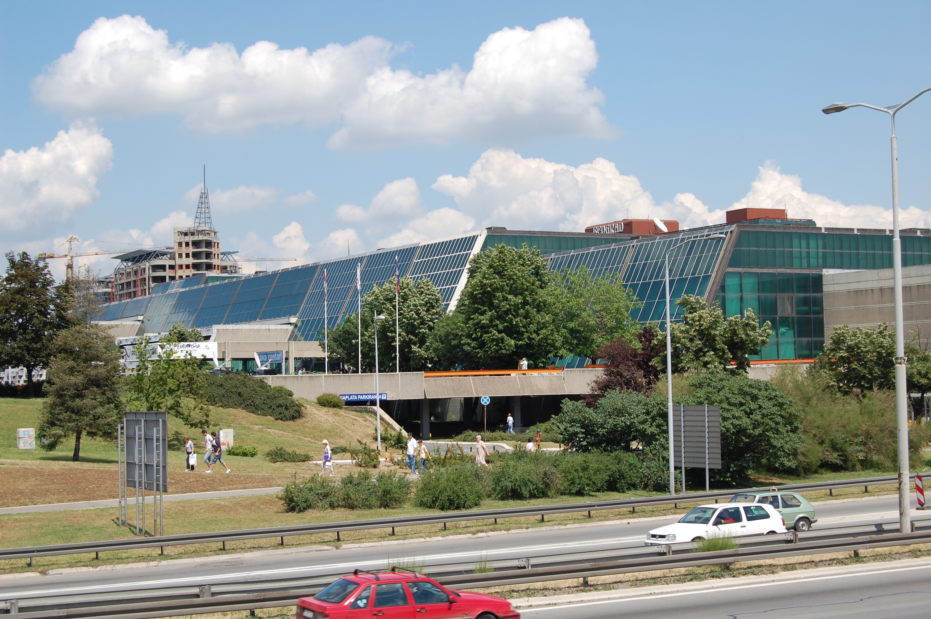 Sava Centar, Belgrade